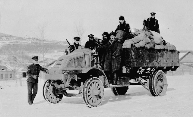 Personnel of the Canadian Siberian Expeditionary Force with truck in Vladivotok.